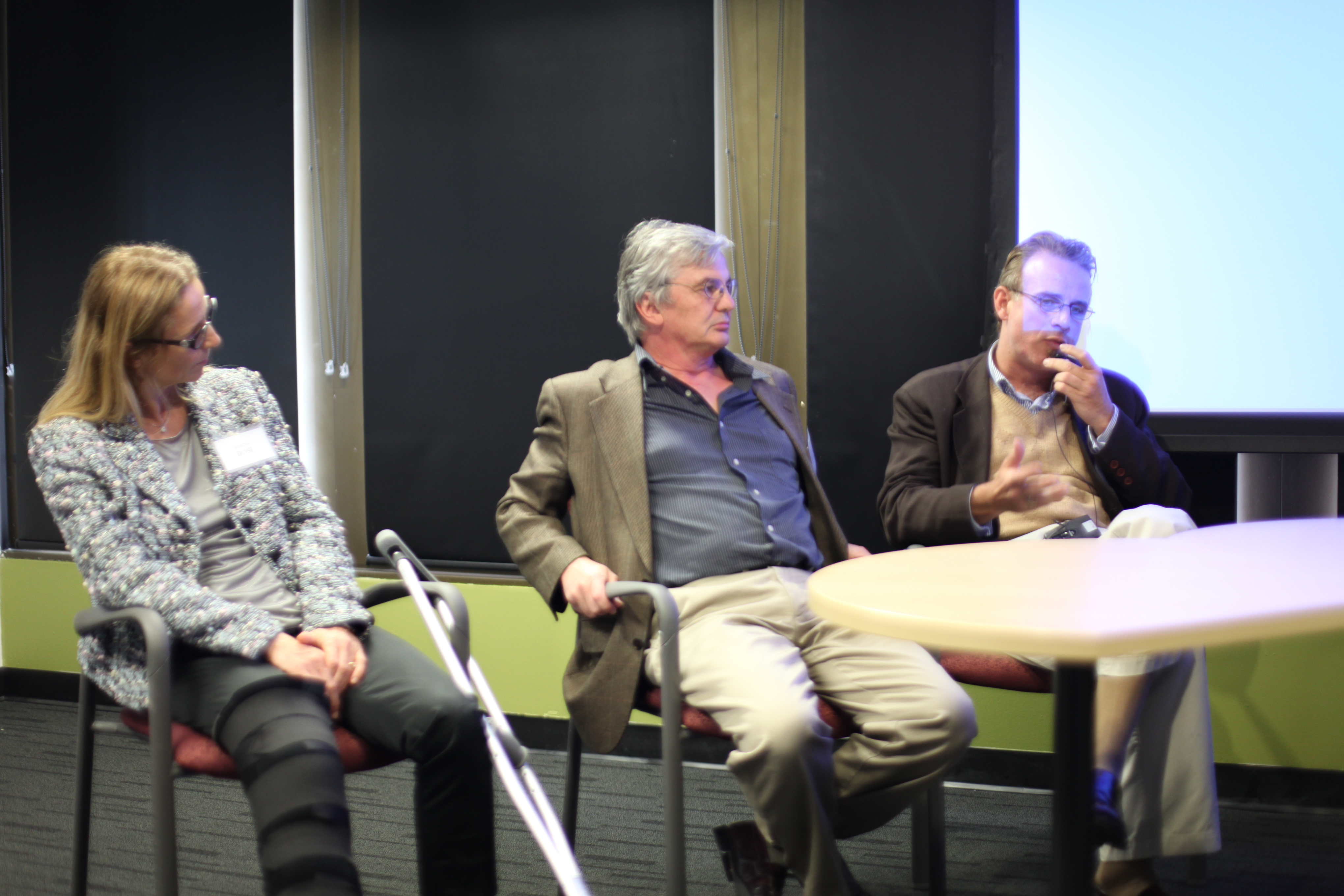 Prof. Laura Perin, Keck School of Medicine, University of Southern California, Napoleone Ferrara Ph.D., Genentech and Prof. Matteo Garbelotto, Forest Pathology and Mycology Lab, UC Berkeley